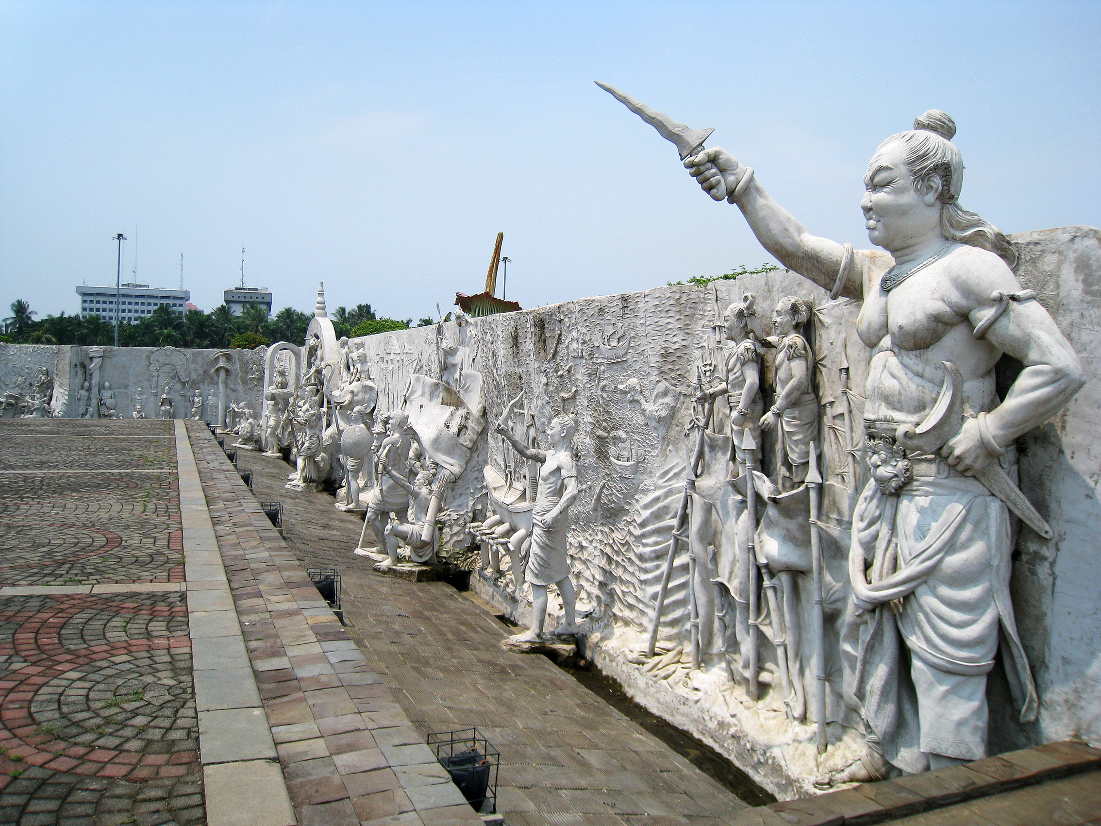 The haute reliefs of Indonesian history encircling National Monument, Jakarta. On northeastern corner depicting ancient empires of Indonesia, at the nearest right is Gajah Mada, the prime minister of Majapahit empire.